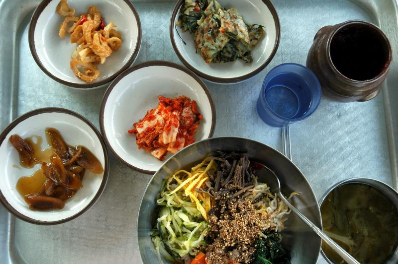 A set meal of bibimbap, South Korea.